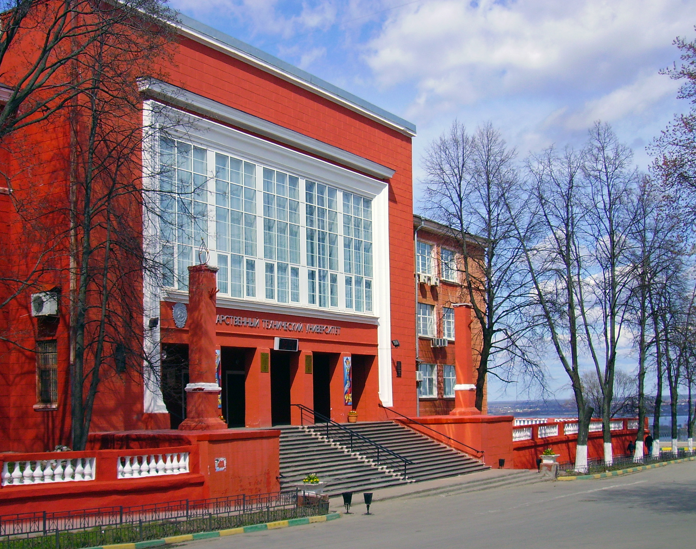 Main Entrance of Nizhny Novgorod State Technical University